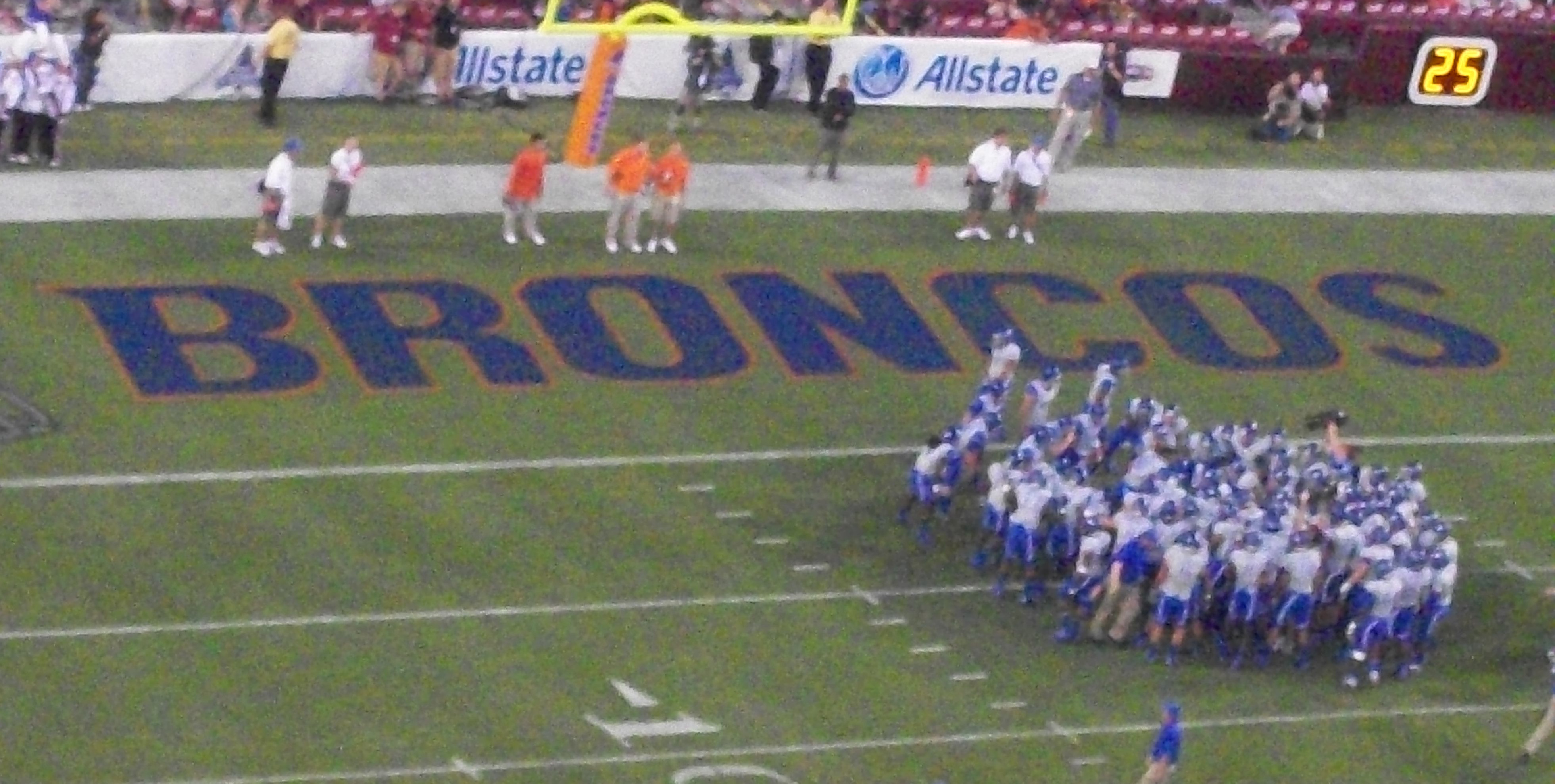 Boise State football team during pregame by an endzone of FedEx field with their team name painted in it before their game vs Virginia Tech on September 6, 2010 in Landover, MD.